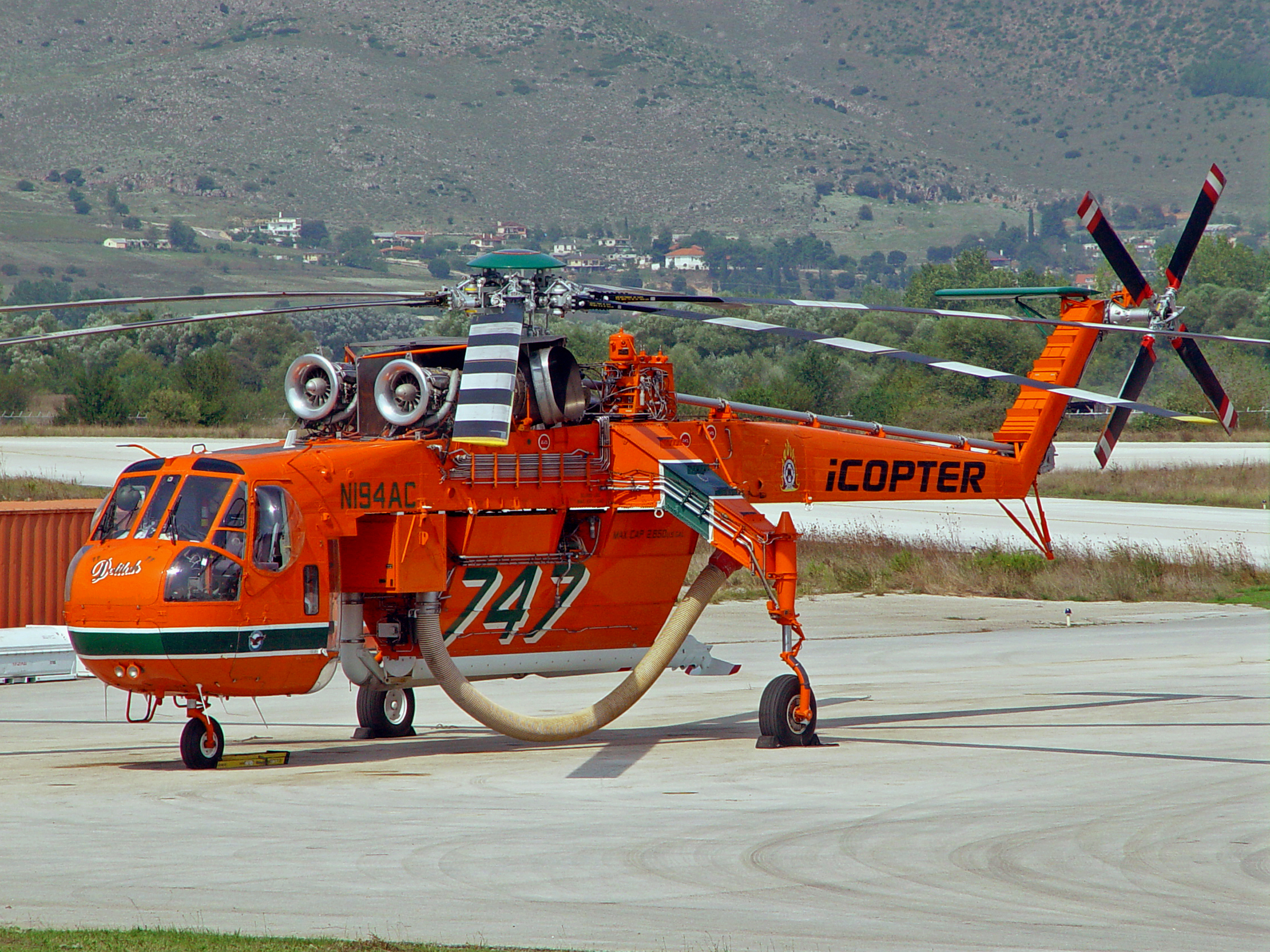 S-64E Erickson Air-Crane heavy-lift helicopter for fire suppression. Photographed at Ioannina airport, Greece.